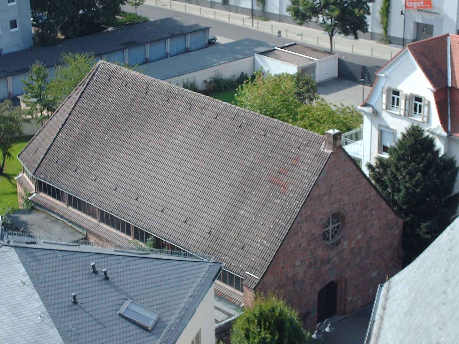 St Pancras Chapel, Gießen, Germany